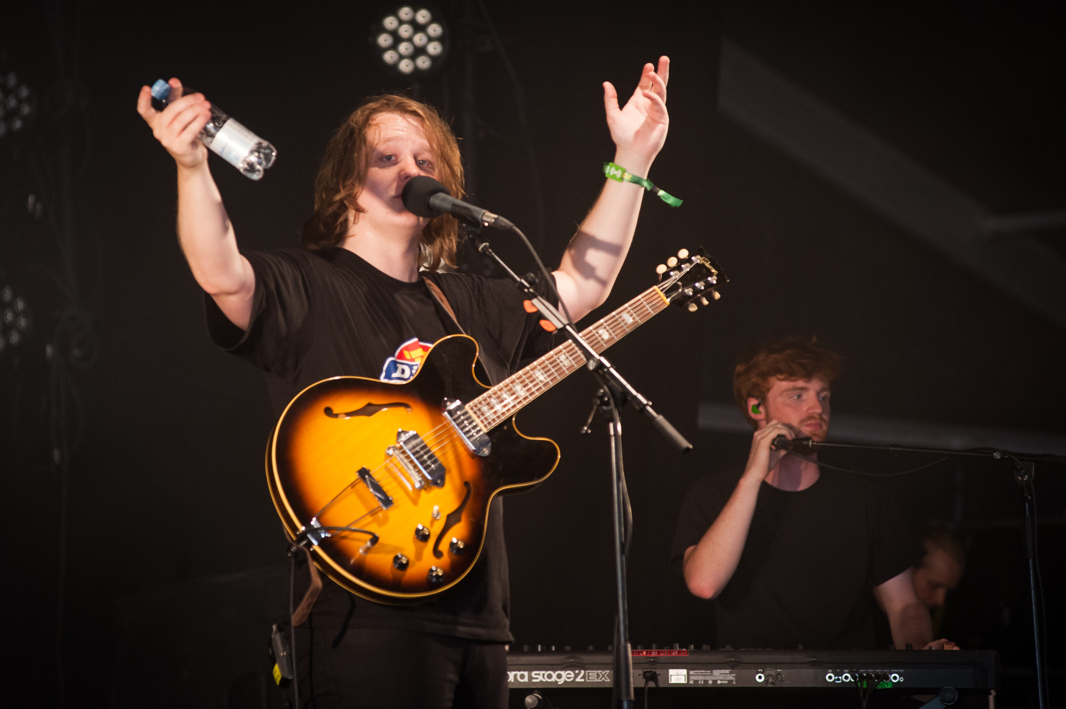 Scottish singer-songwriter Lewis Capaldi performing at the 2018 Ilosaarirock festival in Joensuu, Finland.